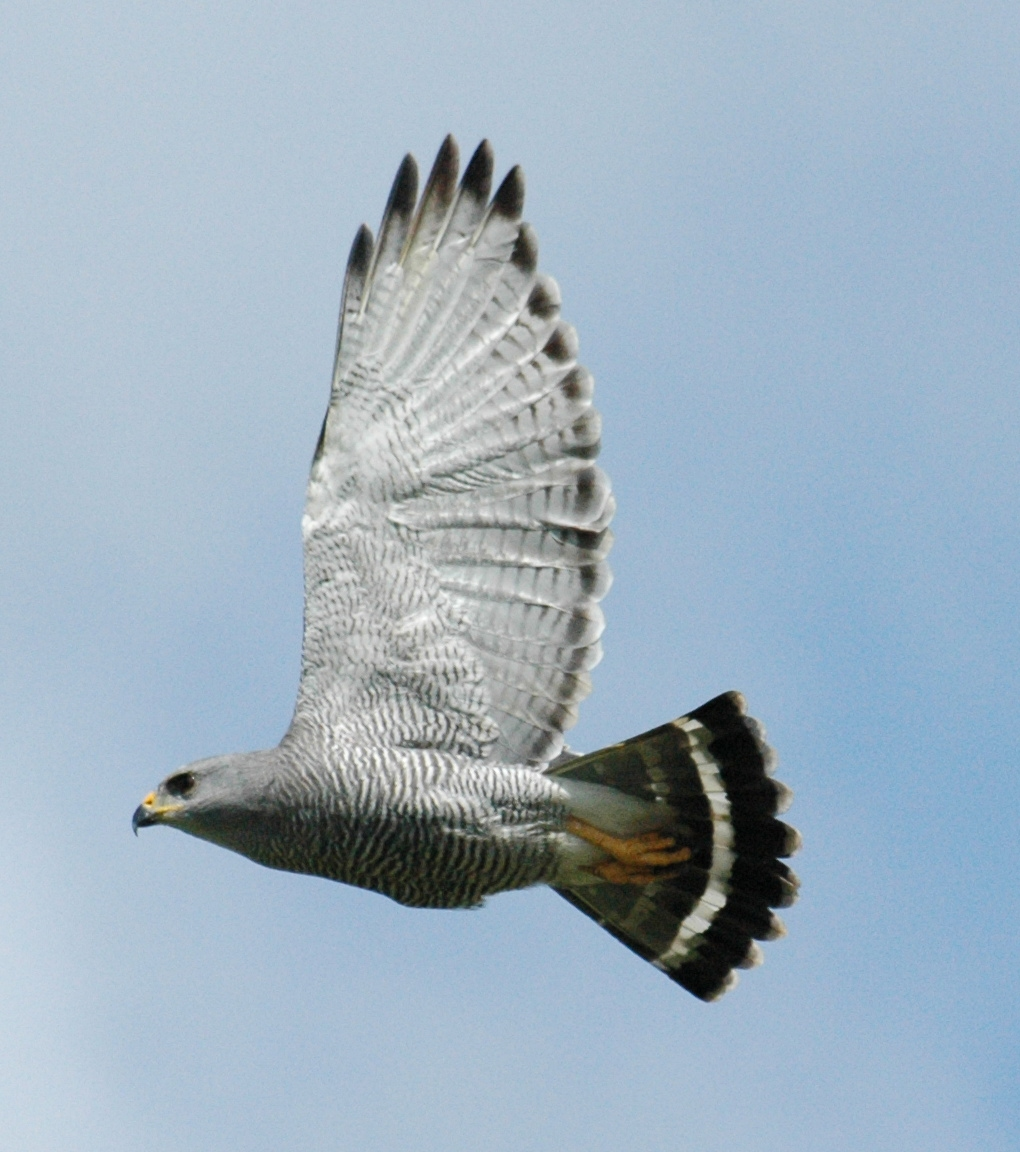 Gray Hawk (Buteo plagiatus) spotted flying away in Belize.